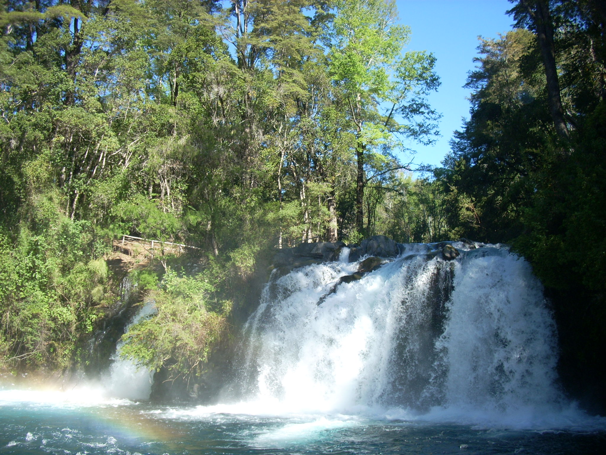 Ojos del caburga (Chile)